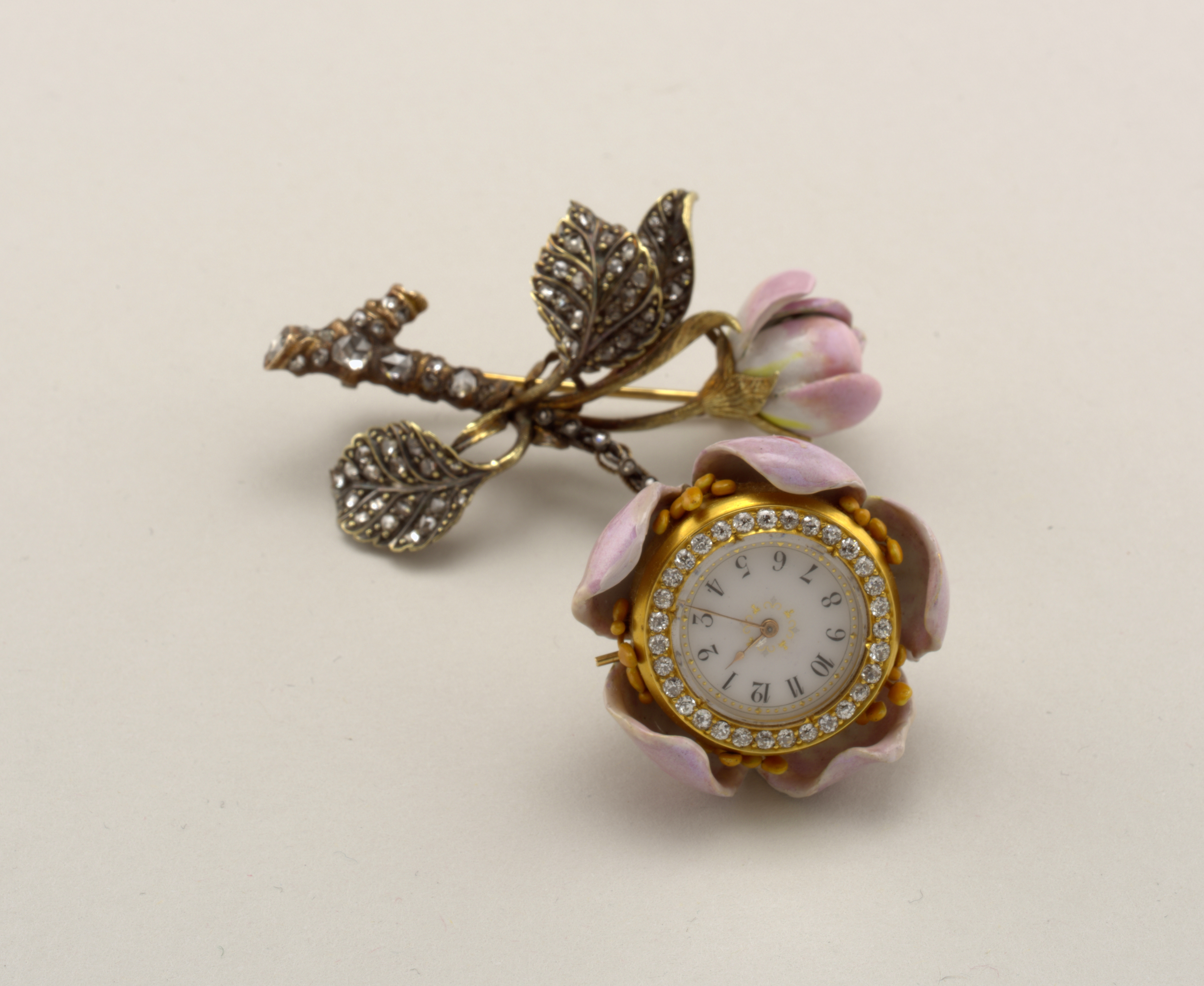 Chatelaine watch forms the core of a wild rose, the stem and foliage of which are composed of enameled gold, studded with diamonds. - Bar pin with three leaves, encrusted with small rose diamonds. - Branch set with large rose diamonds. - Pink enamel bud (few chips on edge). - Pendant watch, pink enamel hung from small rose diamond chain. - Five pink enamel petals, old mine diamond clusters on base of watch, containing approximately 1 ct.. Cluster of old mine diamonds on border of face. (This lapel watch was shown at the 1889 Universal Exposition in Paris, where TIffany exhibited a group of floral brooches.)